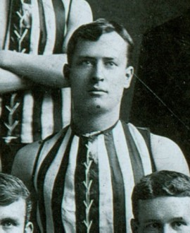 Photograph of Jack Incoll in 1906